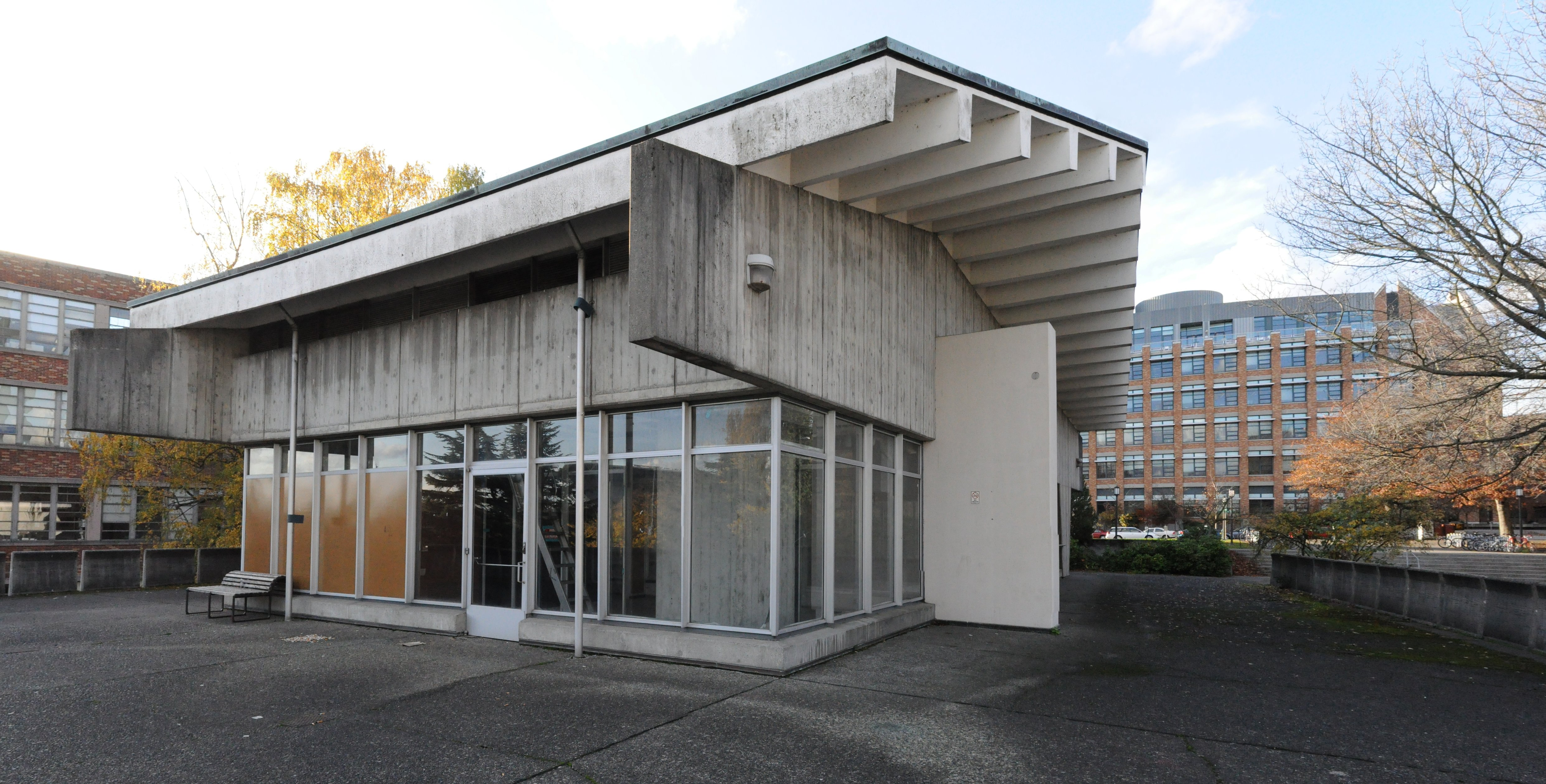 Panoramic view of rear of University of Washington Nuclear Reactor Building also known a More Hall Annex; opened in 1961, the reactor stopped operating in 1988, fuel rods were removed in the years that followed, decontamination continued in 2006. Added to Washington State list of historic places in 2008 and to the National Register of Historic Places in 2009. In the background at right is the Paul G. Allen Center for Computer Science & Engineering. This image was created with Hugin.